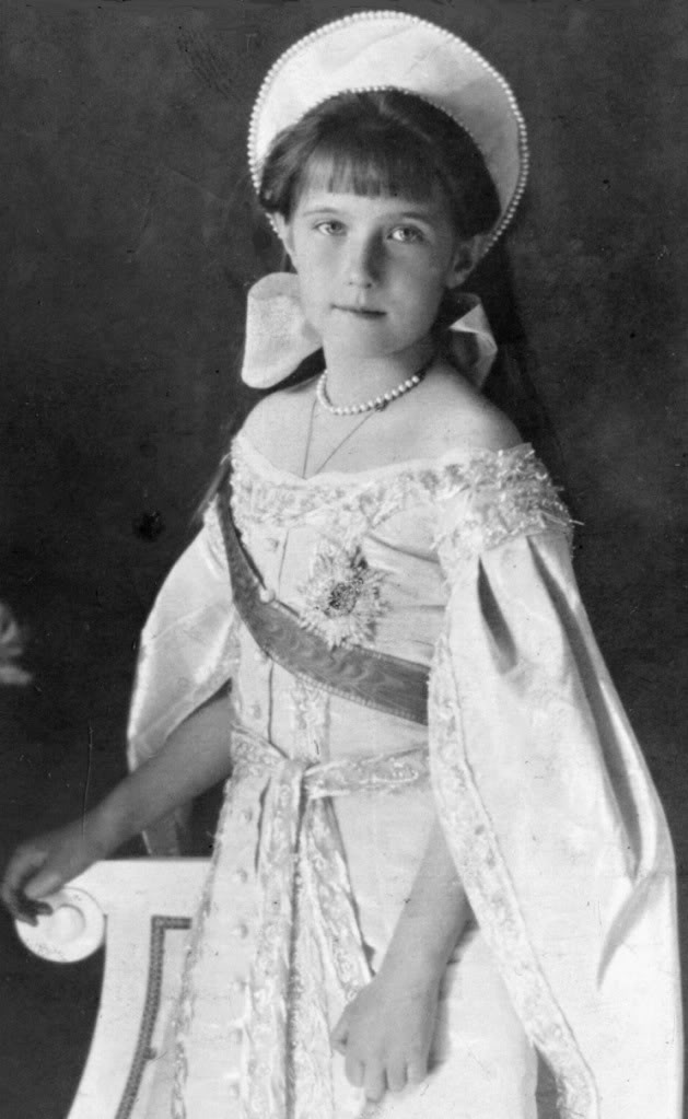 Grand Duchess Anastasia Nikolaevna